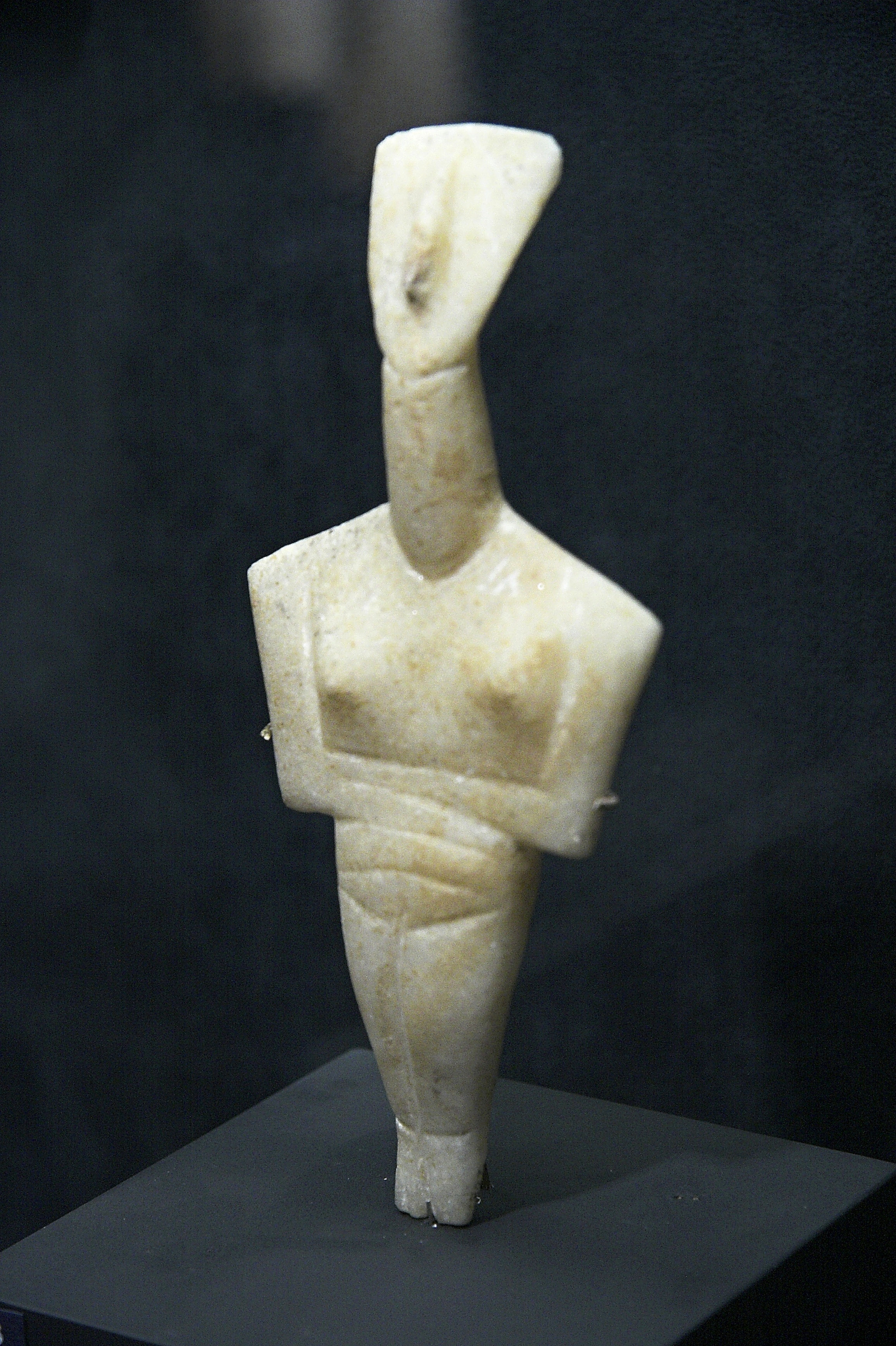 Idol, female figure, the canonical type, variety Chalandriani, marble, height 16 cm, probably from the island Schinoussa, EC II, 2800-2300 BC. Goulandris Foundation Museum of Cycladic Art (Athens) NG 823.